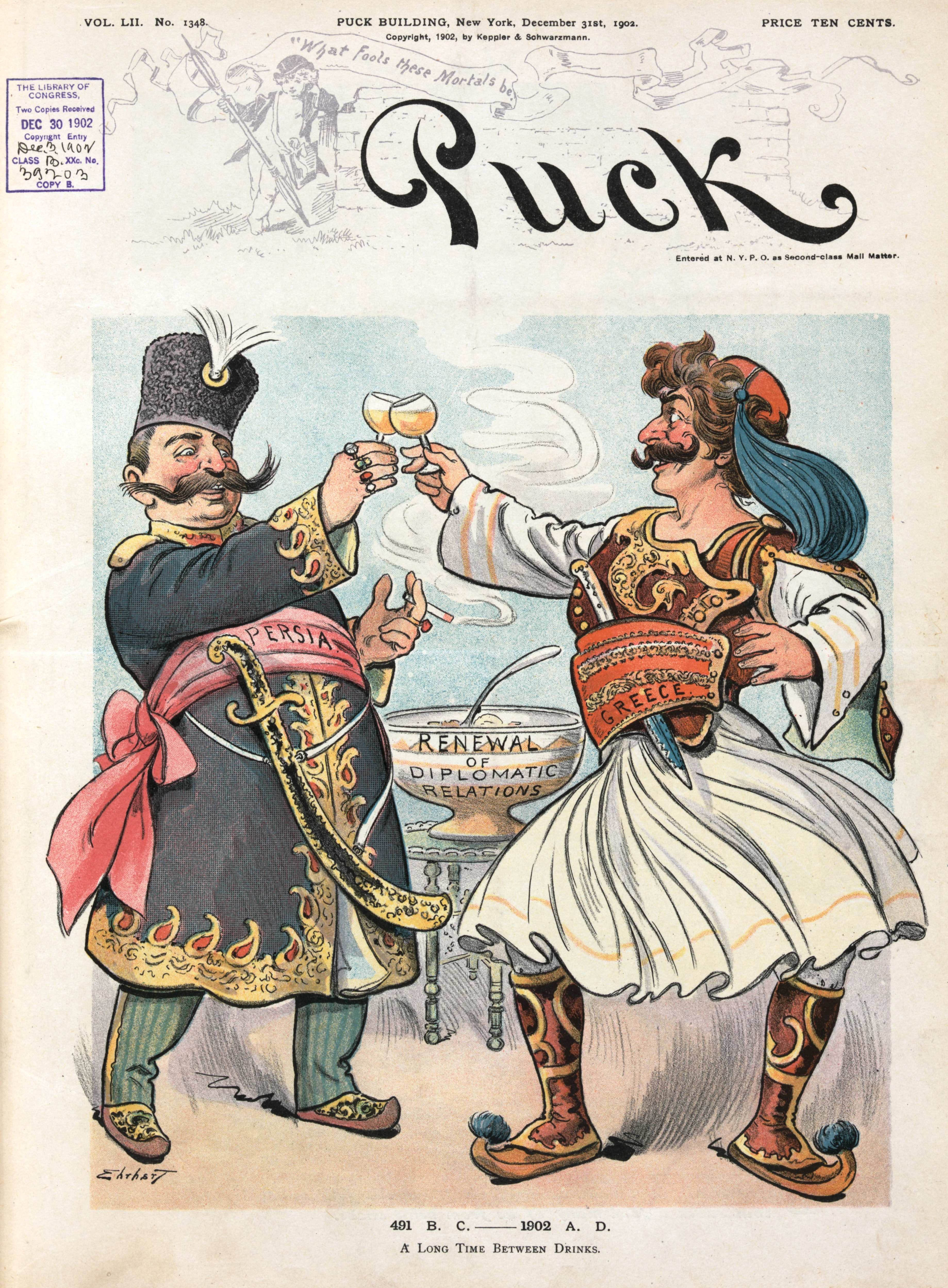 Humoristic cartoon from Puck on the establishment of diplomatic relations between Greece and Persia